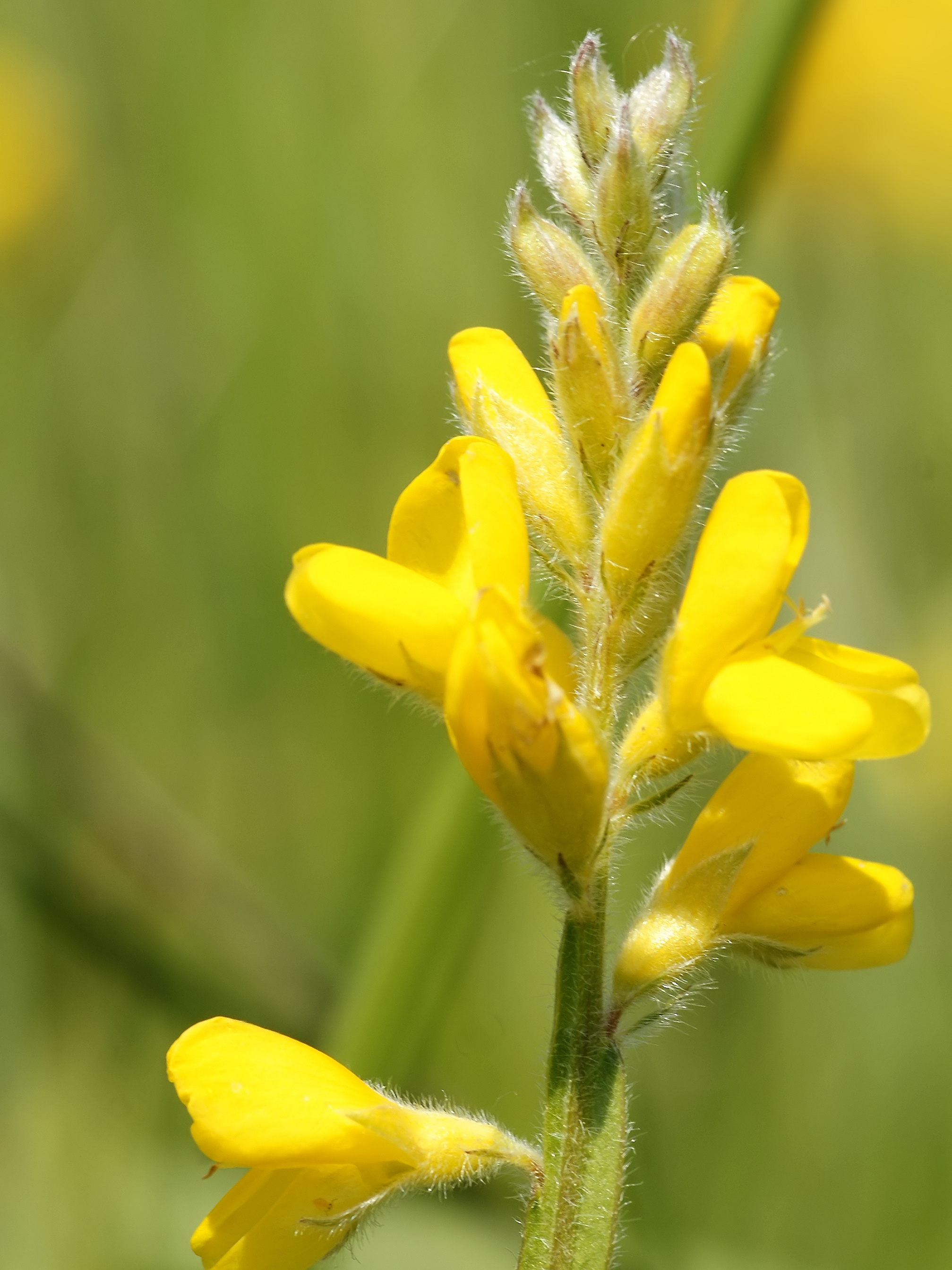 Winged greenweed on the Tienne Breumont at Nismes, Belgium